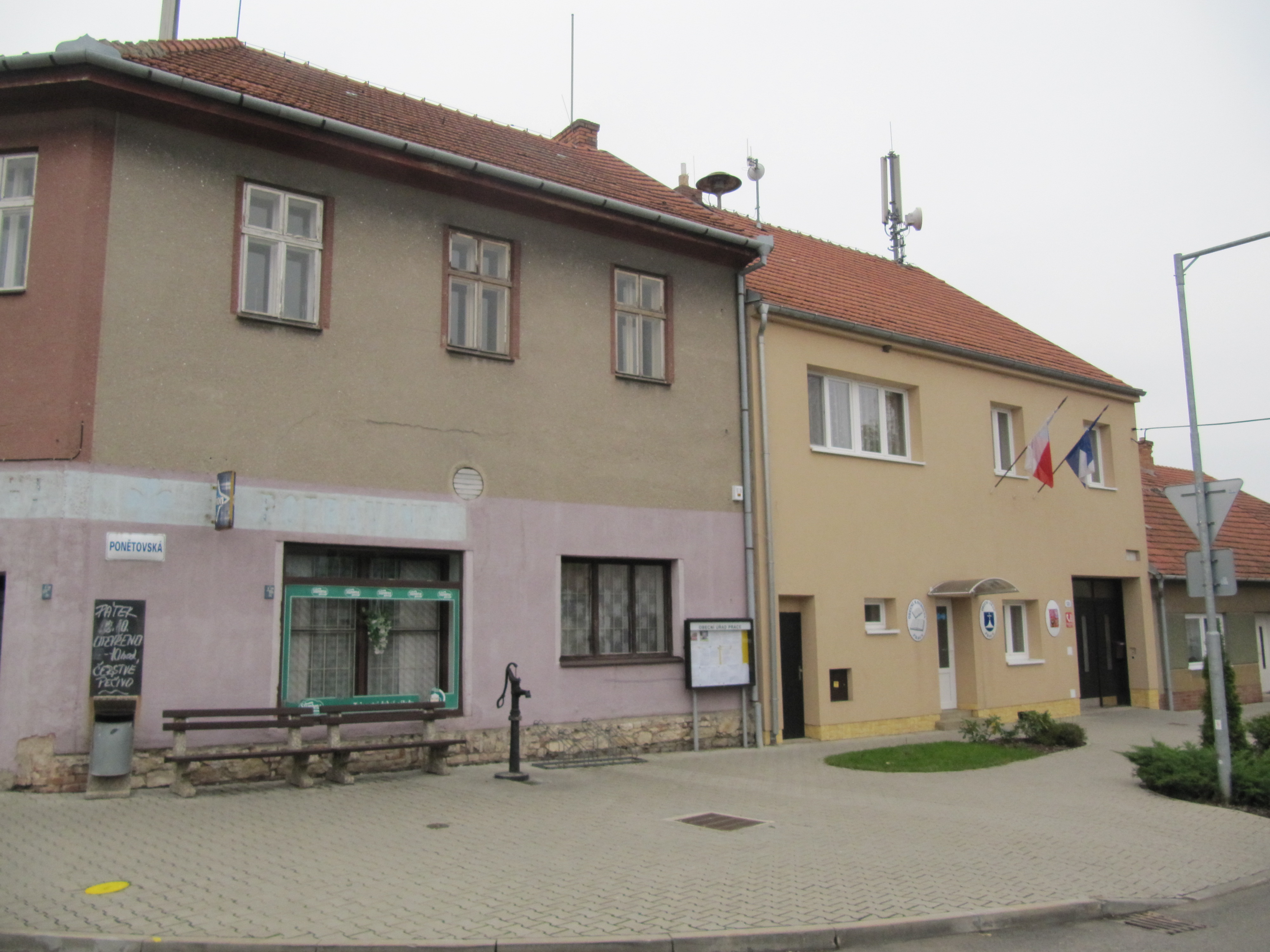 Prace in Brno-Country District, Czech Republic. Municipal office.